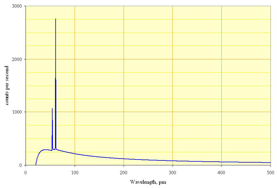 Spectrum of the X-rays emitted by an X-ray tube with a rhodium target, operated at 60 kV. The smooth, continuous curve is due to bremsstrahlung, and the spikes are characteristic K lines for rhodium atoms.